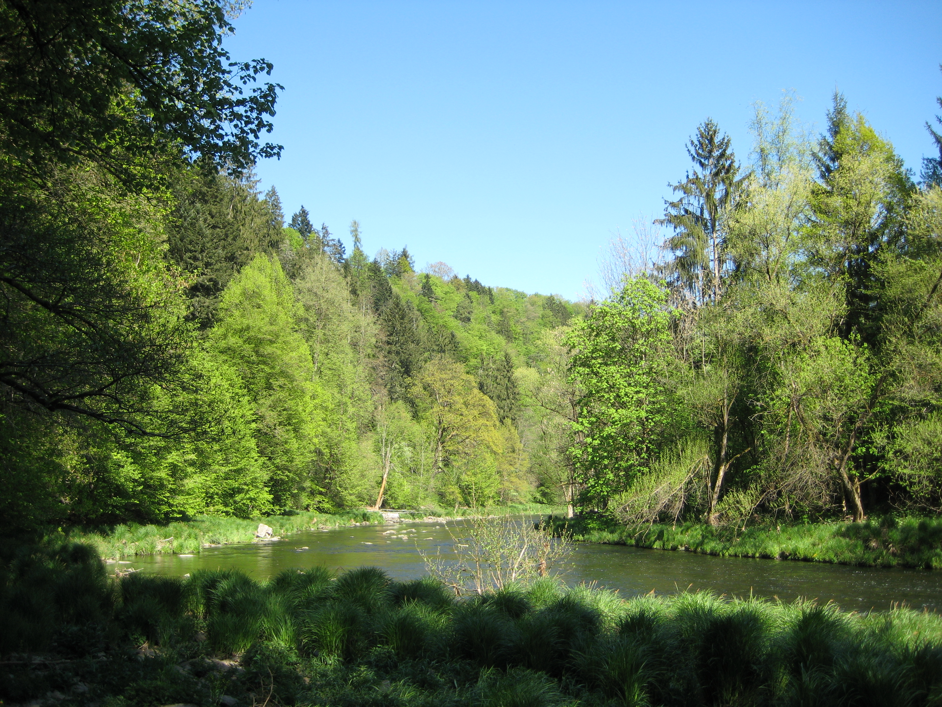 The Ilz near Passau